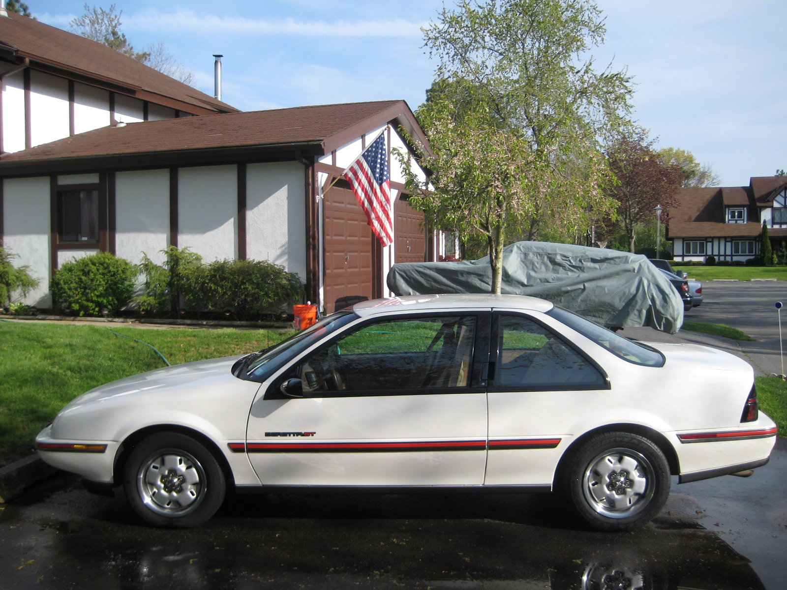 1989 Chevrolet Beretta GT Robert Spinello, my photo and vehicle